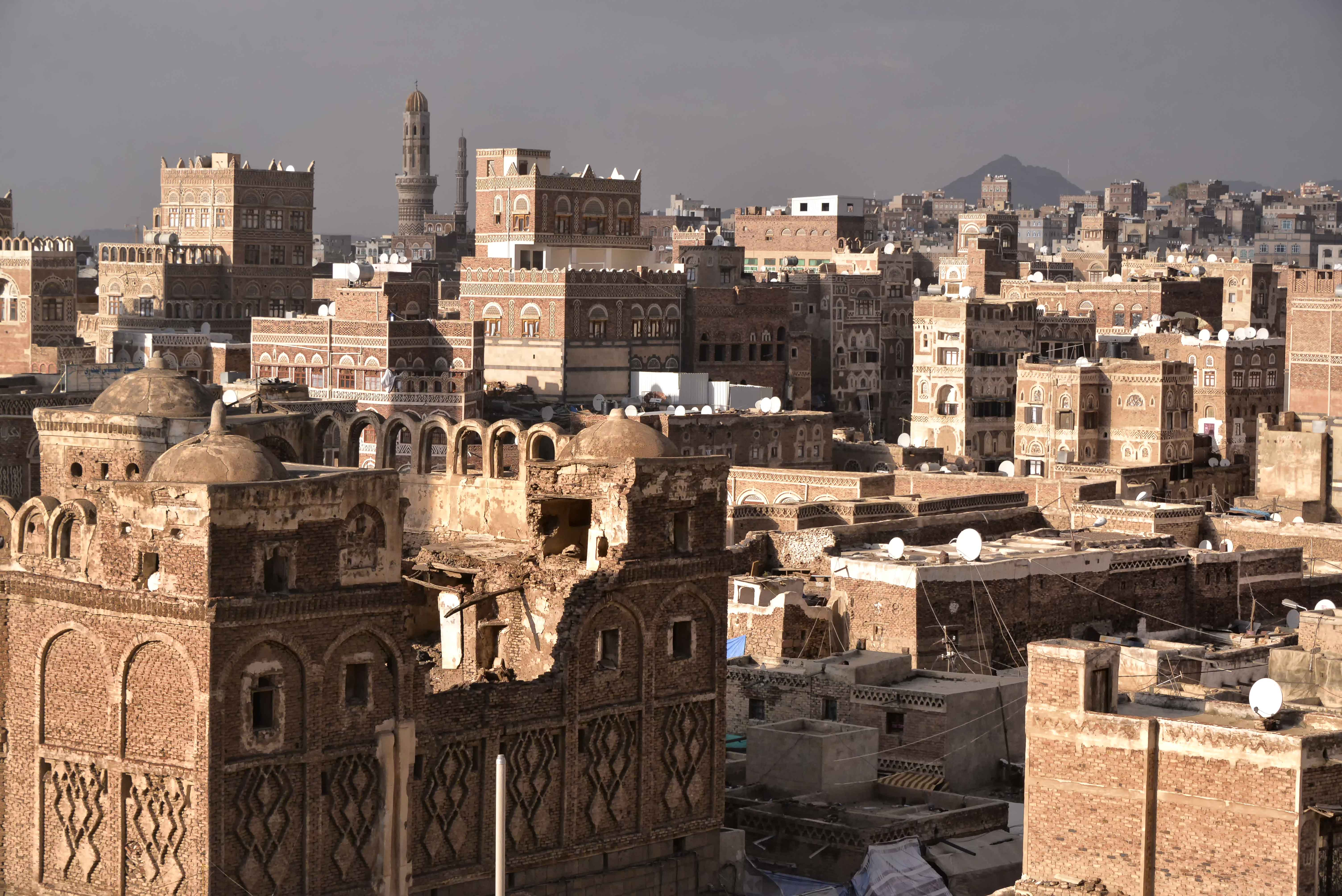 Old Sana'a, Yemen. The first minaret is minaret of Al-Madrasah mosque.